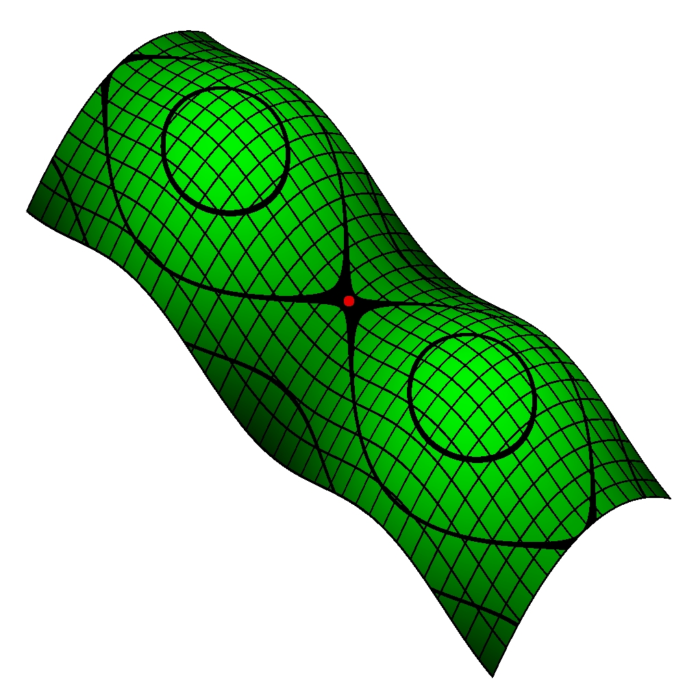 Shows a saddle point on a surface between two hills. I created this image on software I wrote. StuRat 19:37, 26 August 2005 (UTC)